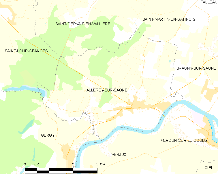 Map of French municipality